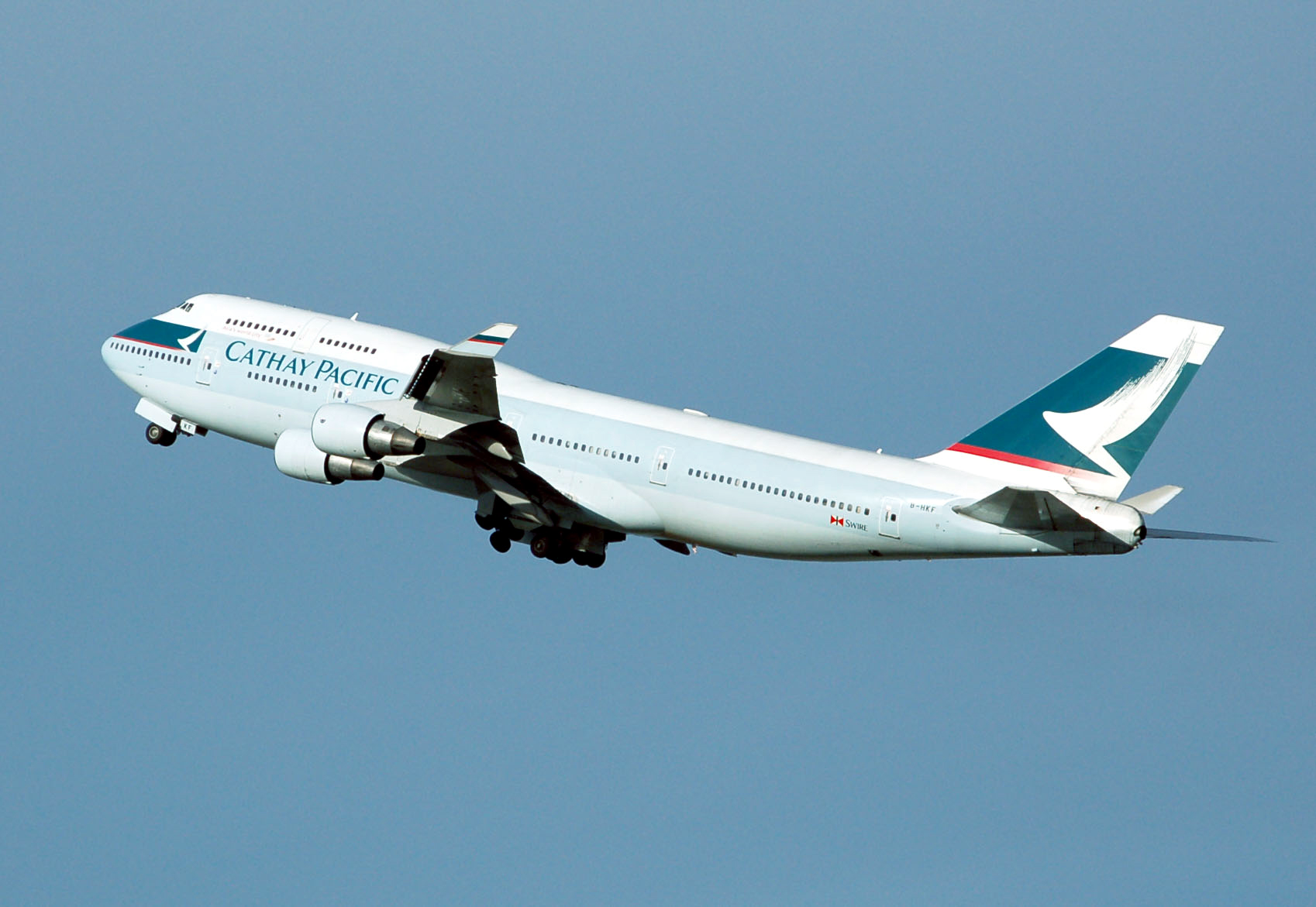 Cathay Pacific Airways Boeing 747-400 (B-HKF) takes off from London Heathrow Airport, England. Photographed by Adrian Pingstone in January 2007 and released to the public domain.